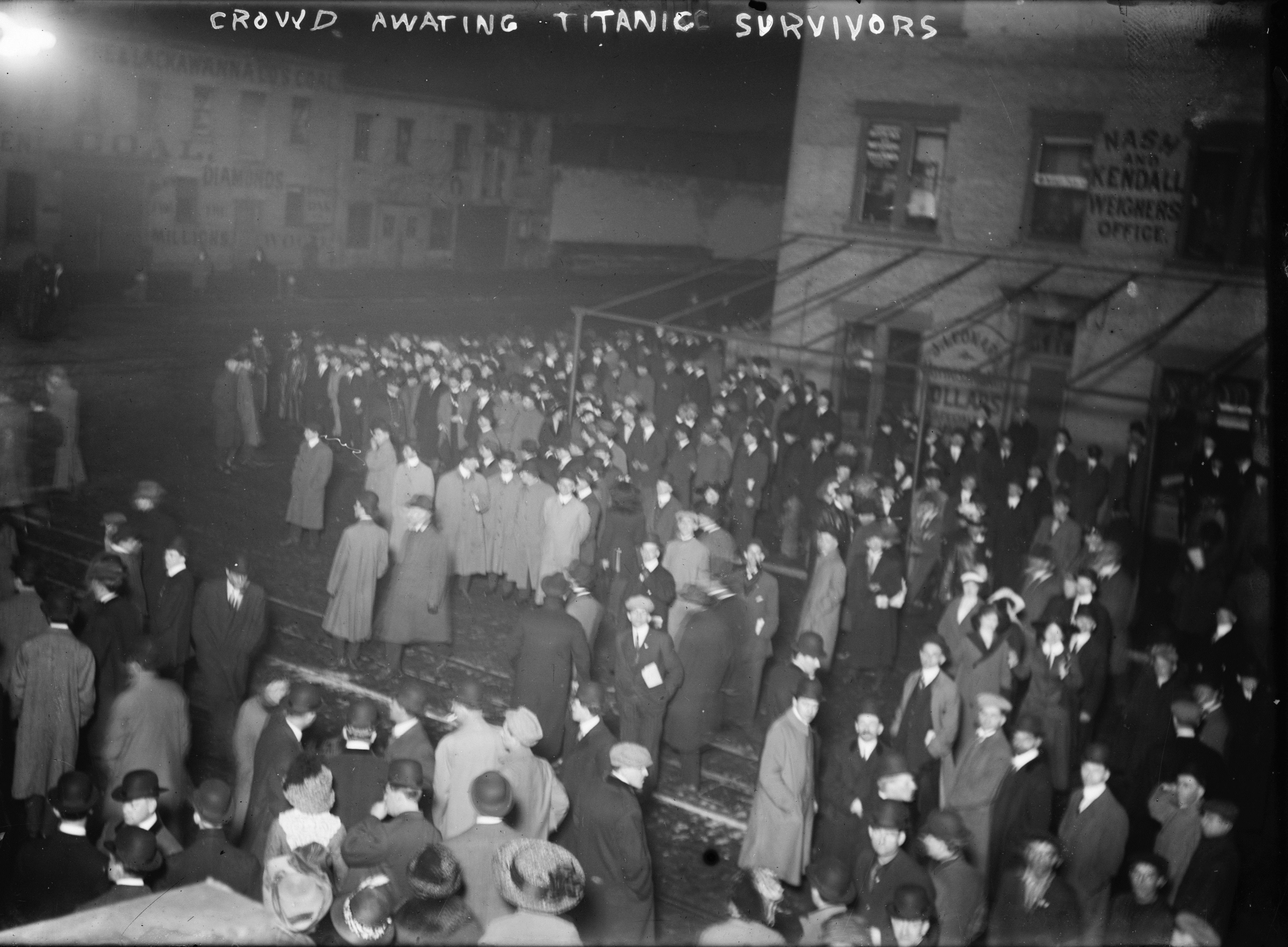 Crowds gathered at Pier 54 in New York--the Cunard Line pier--awaiting the arrival of the ship Carpathia carrying Titanic survivors.